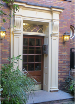 Thomaston Building - 8 Bind Street Entry